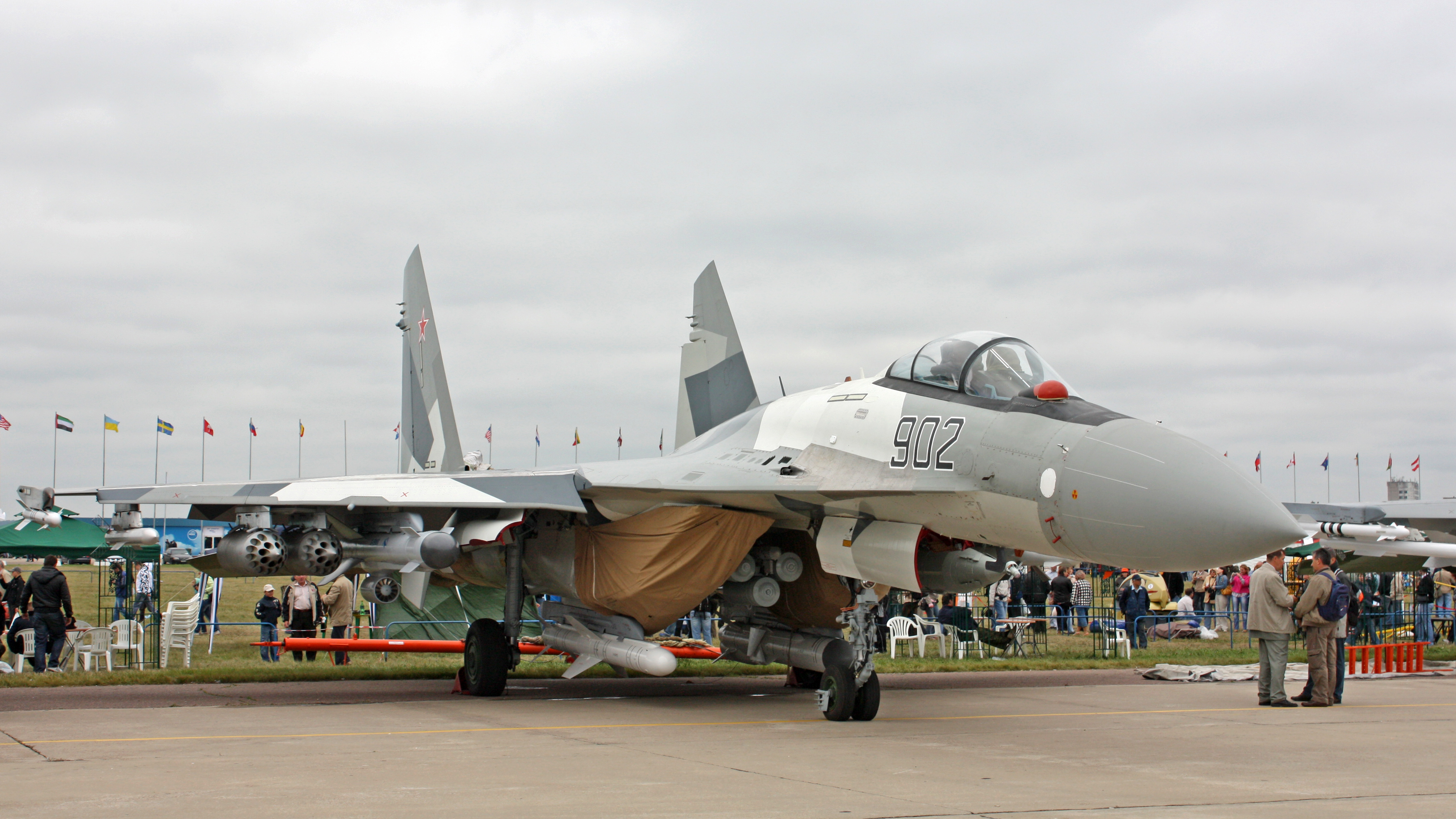 Sukhoi Su-35 (The international aerospace salon MAKS-2009)